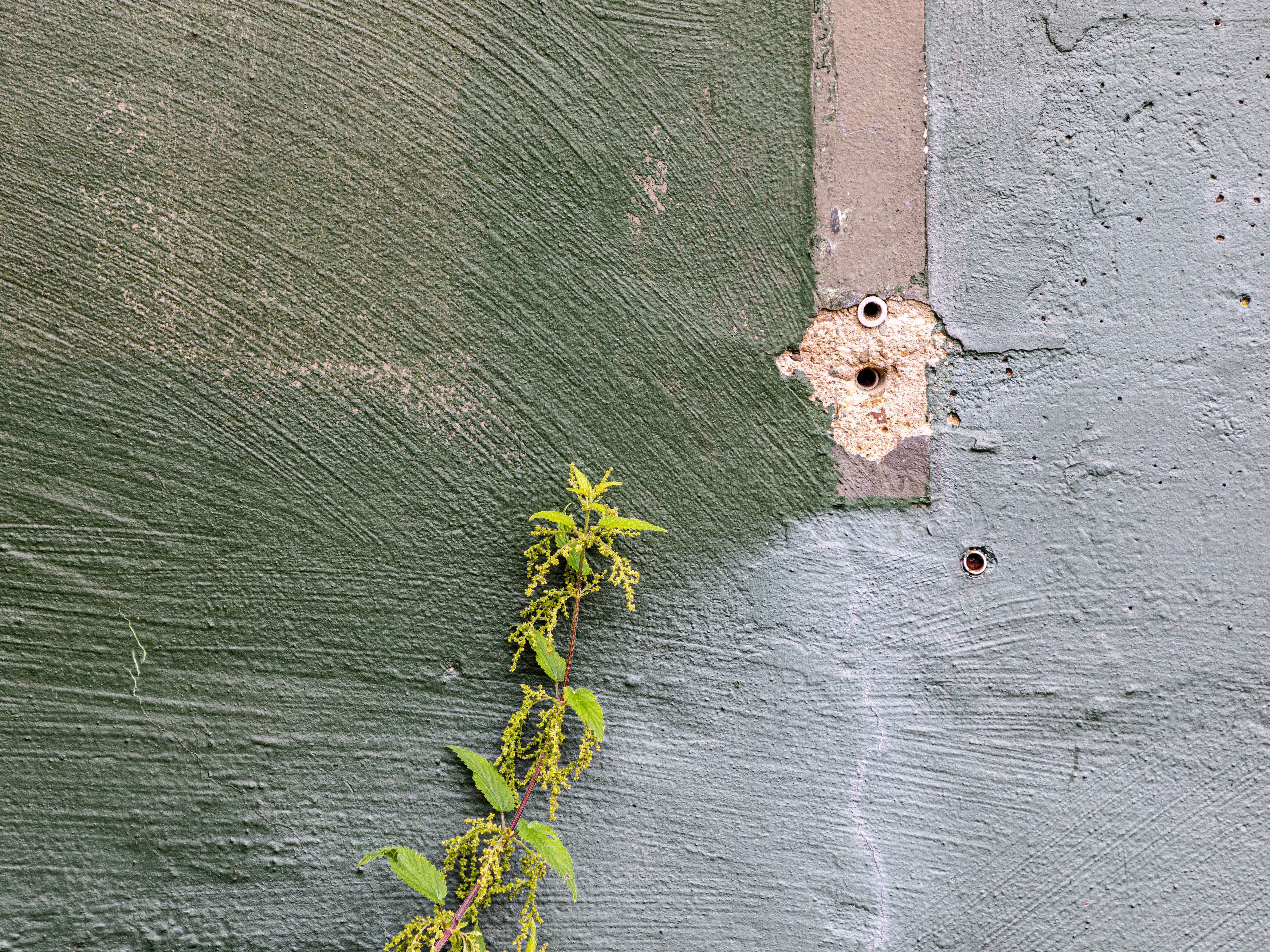 Bunker 23 in the ammunition depot in the Dernekamp hamlet, Kirchspiel, Dülmen, North Rhine-Westphalia, Germany This image shows a heritage building in Germany, located in the North Rhine-Westphalian city Dülmen (no. 132).